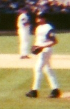 Anaheim Angels' relief pitcher Lou Pote at the top of the eight inning at an August 25, 2001 game at Edison International Field of Anaheim. Pote pitched in relief 3.2 innings and recorded five strikeouts while giving up two hits, two runs and two errors.This photograph was taken using an unspecified disposal 35mm camera and scanned using a Canon CanoScan LiDE 60 scanner.